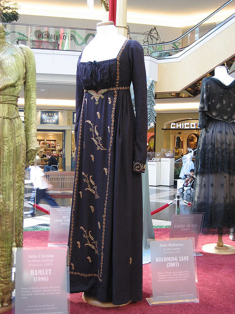 A display of a costume worn by Anne Hathaway in the 2007 film Becoming Jane.